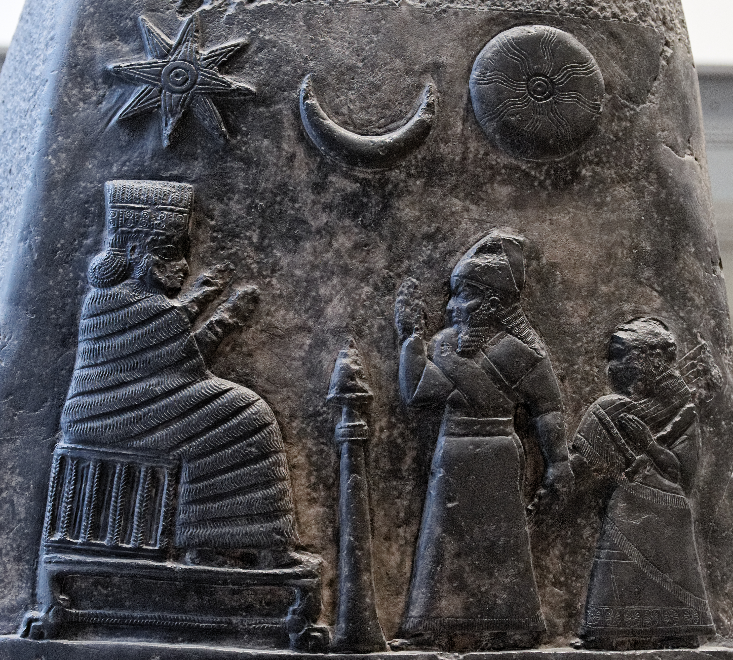 Kudurru (stele) of King Melishipak I (1186–1172 BC): the king presents his daughter to the goddess Nannaya. The crescent moon represents the god Sin, the sun the Shamash and the star the goddess Ishtar. Kassite period, taken to Susa in the 12th century BC as war booty.